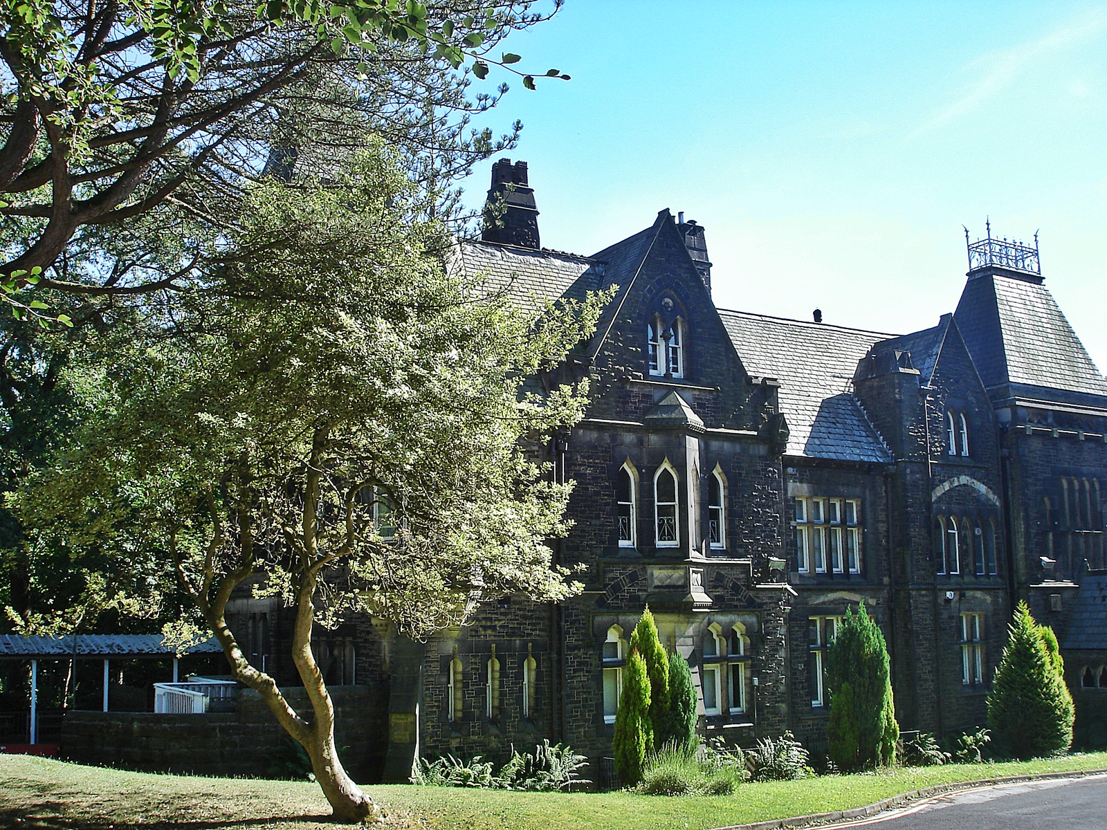 Woodside, New Chorley Road, Bolton. Now Clevelands Nursery and Preparatory school. A grade II listed building